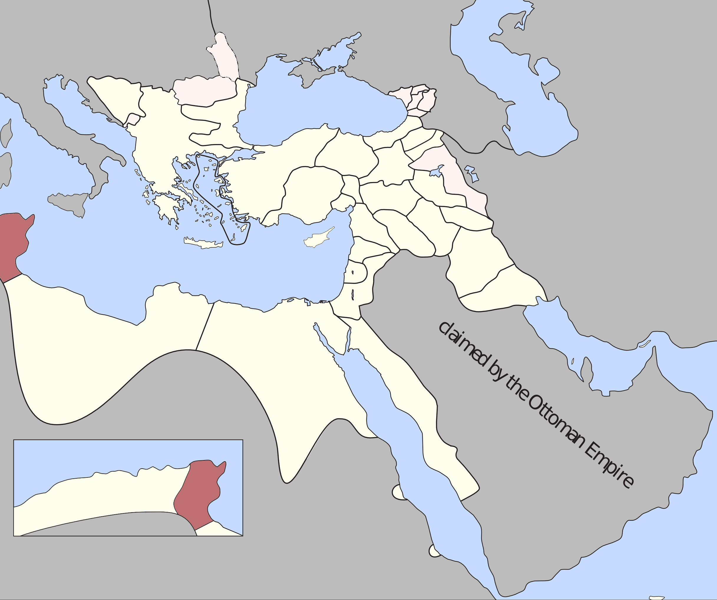 XY Eyalet, Ottoman Empire (1795). Source: A Brief History of the Late Ottoman Empire at Google Books By M. Sukru Hanioglu, Figure 1